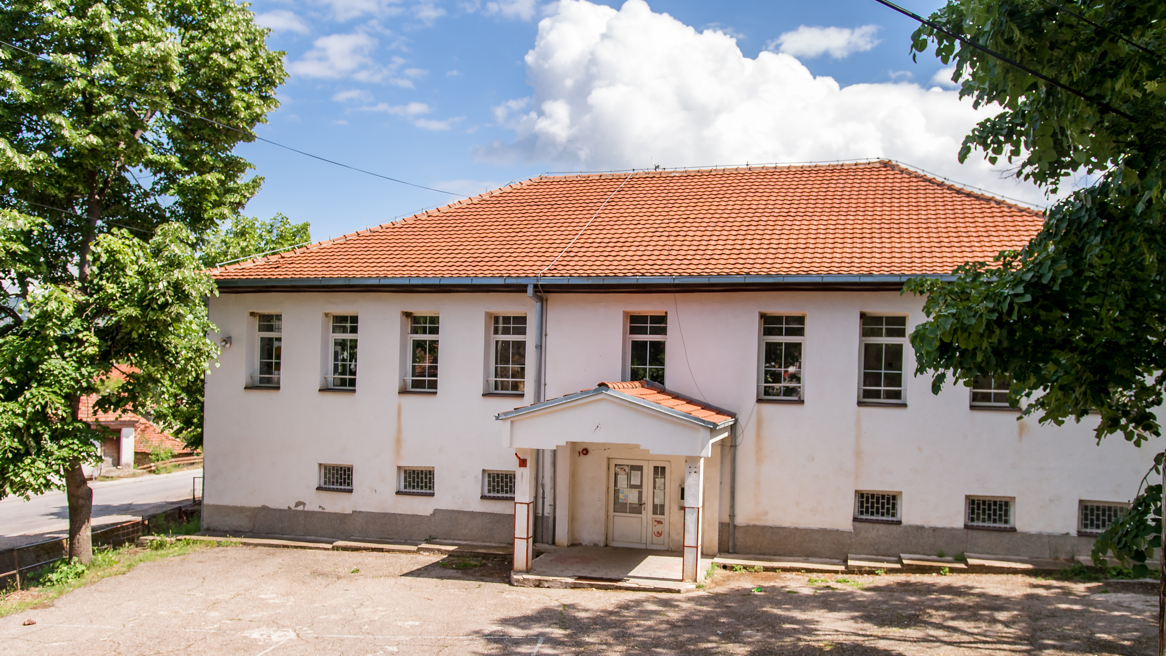 The view of the primary school in the village Šlegovo